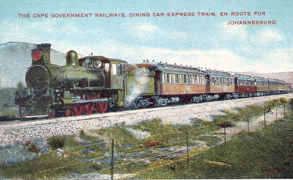 Ex Cape Government Railways Class 6 292 (4-6-0) South African Railways Class 6J 642 (4-6-0) Builder's Number: Neilson, Reid 6094